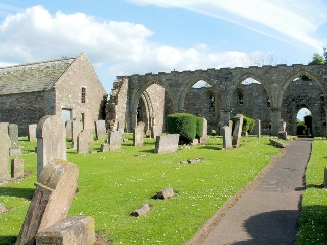 St Kentigern's Church (ruins) Located on the outskirts of Lanark, this church was known as the Out Kirk or High Kirk, to distinguish it from St Nicholas' Parish Church, which is located within the town. According to a local tradition, William Wallace married Marion Braidfute at this church. The ruins of the church are seen to the right of the photo; the arches (dating from the fifteenth century) are alternately round and octagonal in cross-section. As is explained by an inscription at the site, this arcade collapsed on the night of 7th April 1954 (after a storm), and was rebuilt by order of the Town Council of the Royal Borough of Lanark, the work being completed in August 1954. The photo was taken from close to the main entrance of the churchyard (which is on its north-western side).